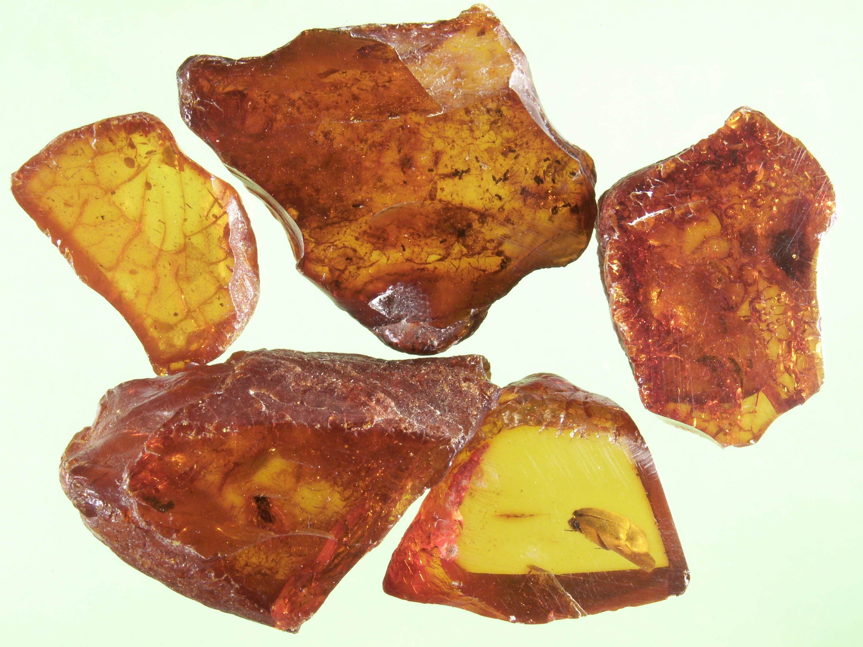 Amber from Bitterfeld, succinite with includes